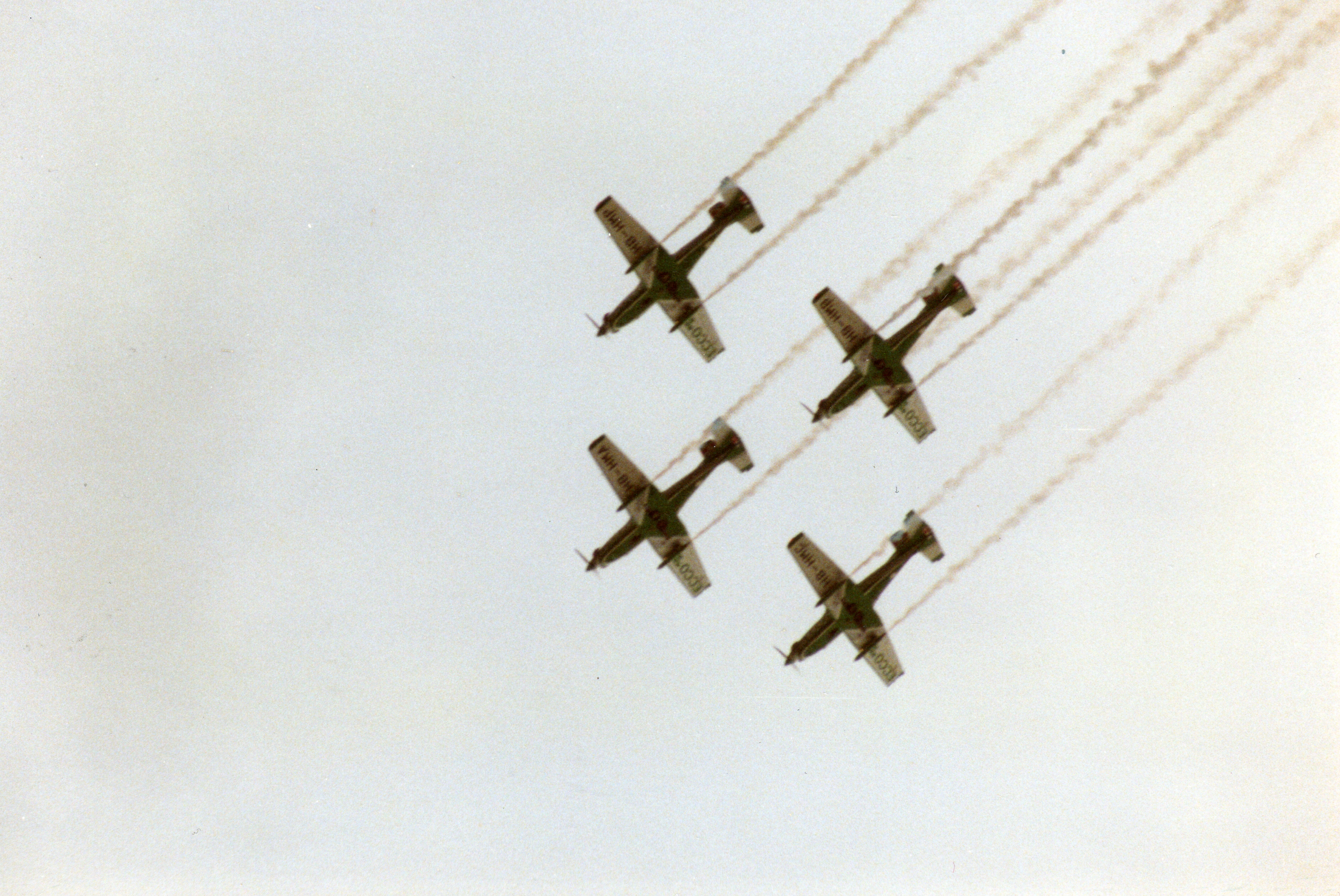 Ecco Pilatus aircraft, Newtownards Air Show, Newtownards Airfield, Newtownards, County Down, Northern Ireland, June 1991